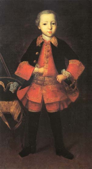 Portrait of Prince Fiodor Golitcyn (1751-1827)